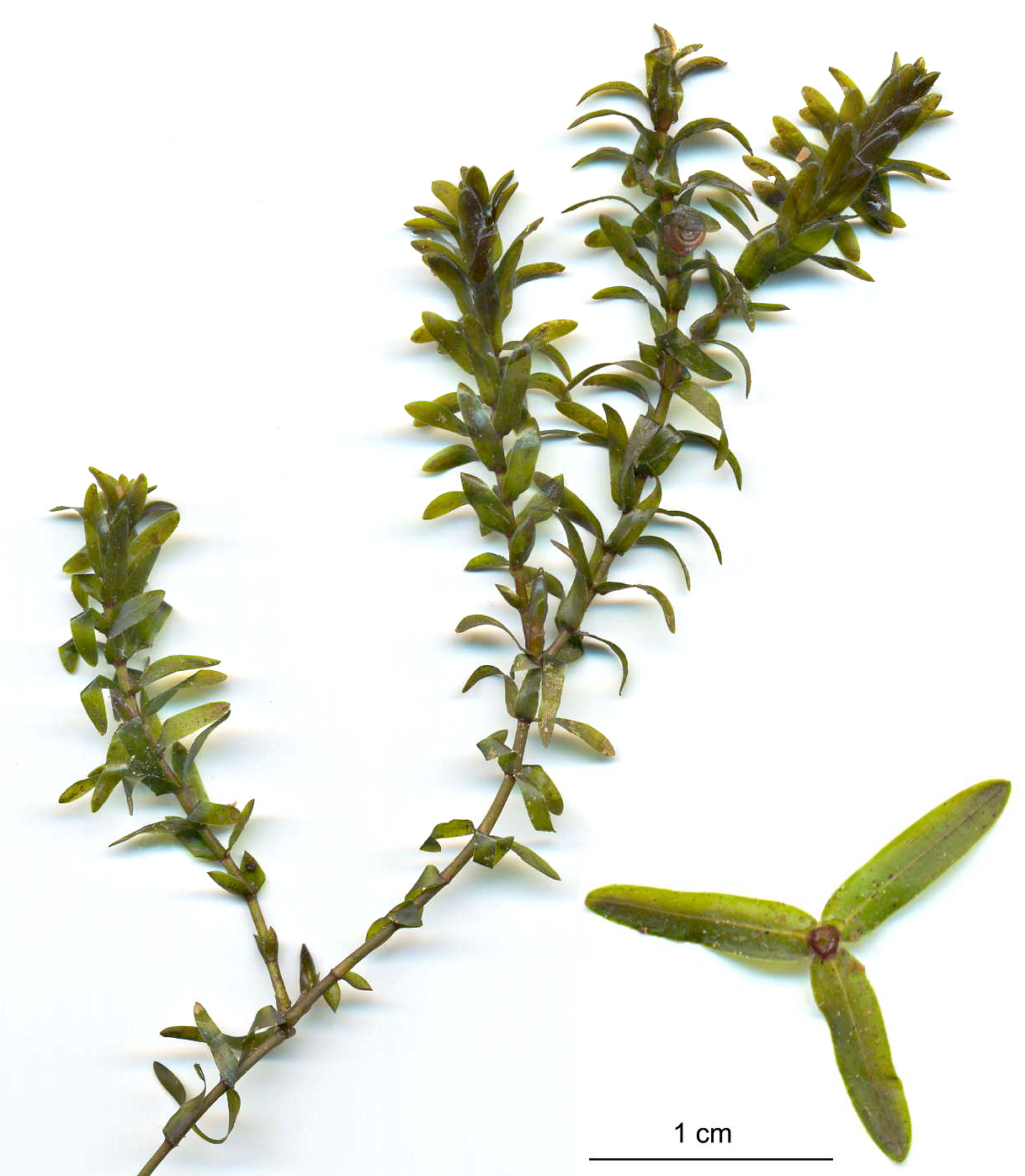 Canadian Waterweed, Elodea canadensis (with enlarged cross section of a single whorl). In this instance, the leaves are relatively long and narrow (four times longer than wide). There are also specimens with stockier leaves.